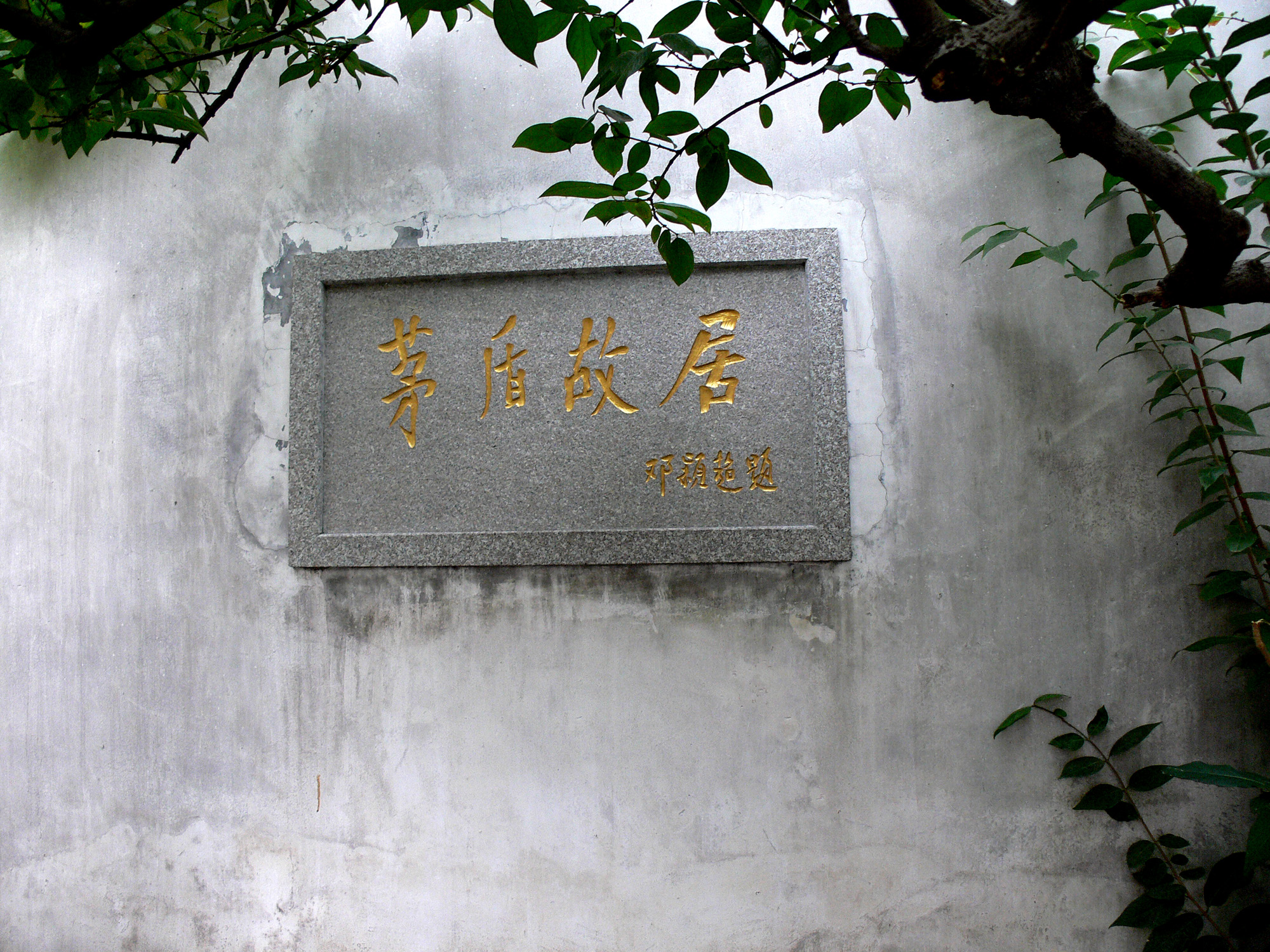 Granite plaque titled "Mao Dun's former residence" established by Mme Deng Yingchao